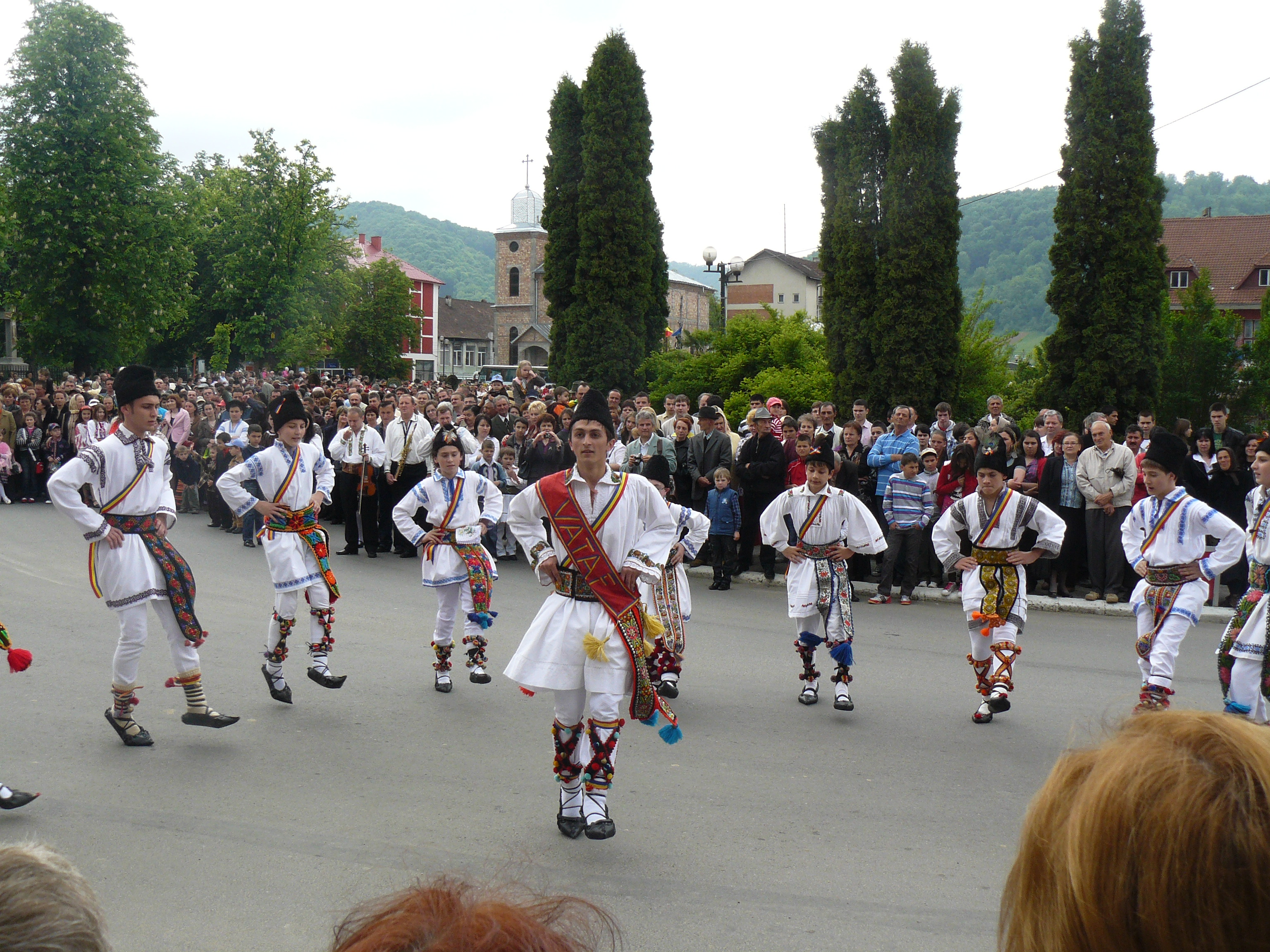 "Calusarii" ensemble dancing.Romani čhib: Ansamblul "calusarii" dansand la "Maialul Elevilor Nasaudeni